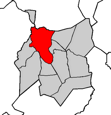 Location of the parish of Cambre in the municipality of Cambre (Galicia, Spain)